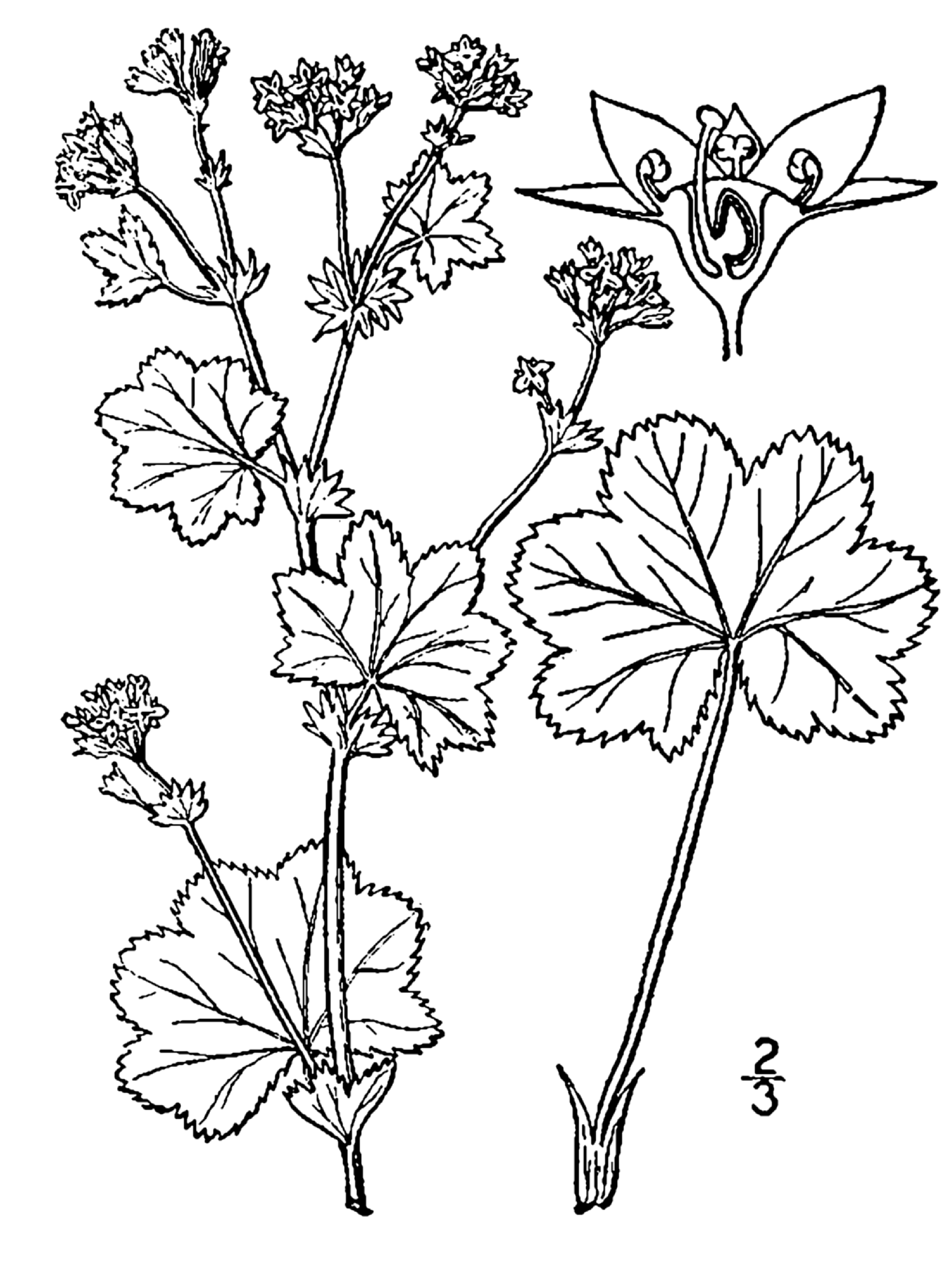 Hairy Lady's Mantle. Family Rosaceae. Drawing.